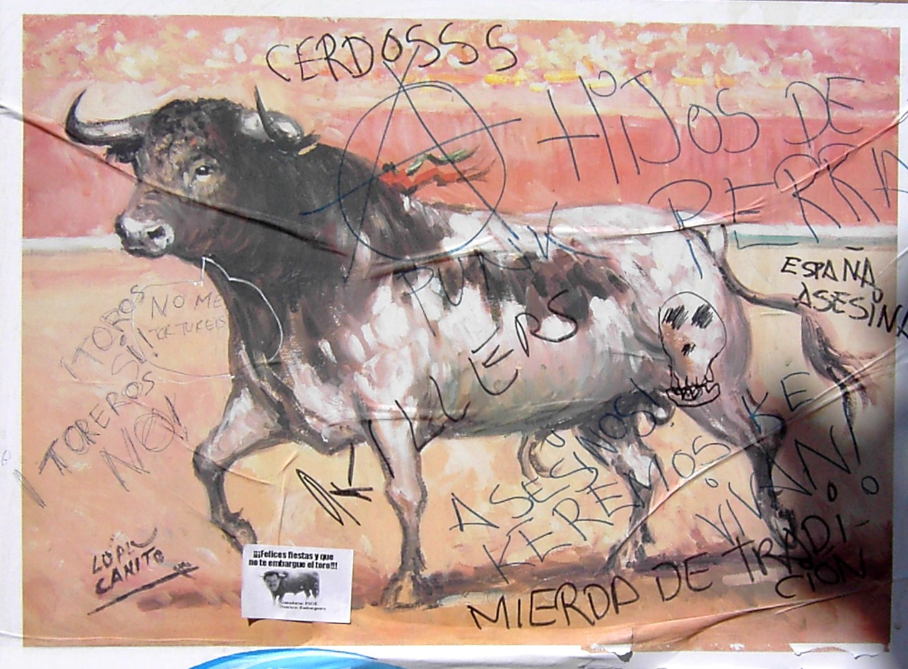 Bullfighting advertisement in Leganés graffitied with words like killers, pigs, shame on you, no bullfighting, shit of tradition